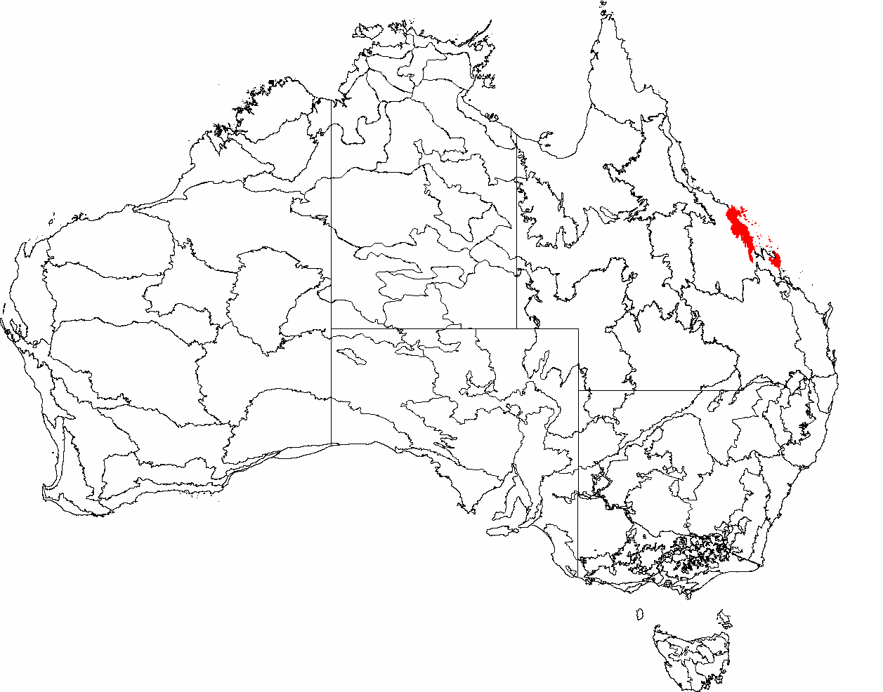 This is a map of the Interim Biogeographic Regionalisation of Australia (IBRA), with state boundaries overlaid. The Central Mackay Coast region is shown in red.